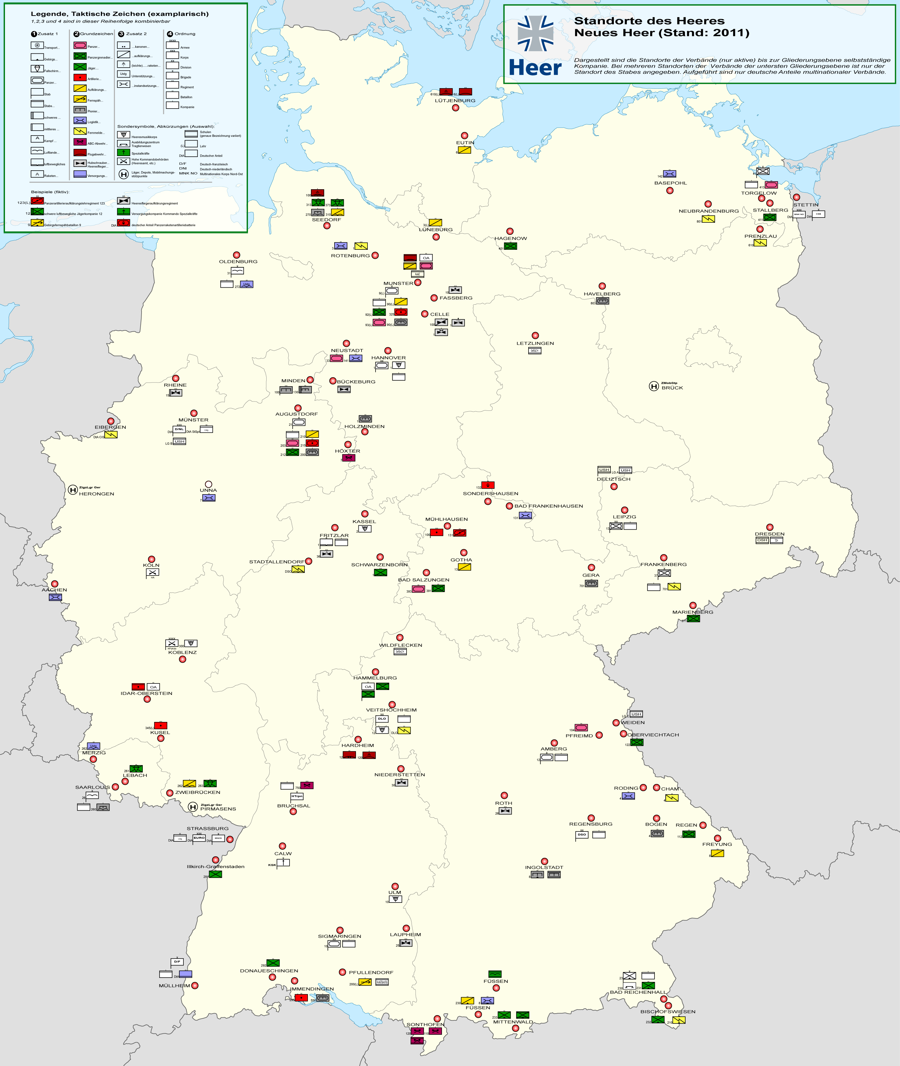 Garrissons of German Army. Strucutre 2010.